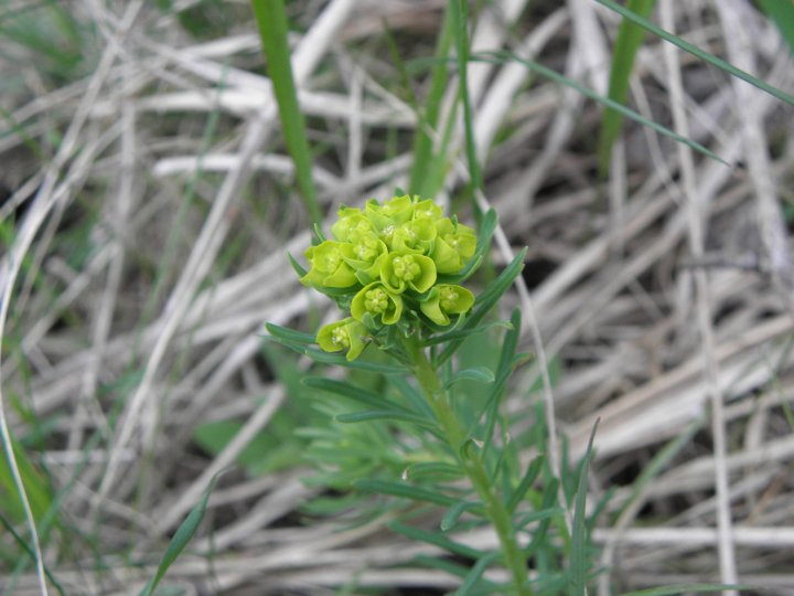 Euphorbia cyparissias (Natural park Vyhon)